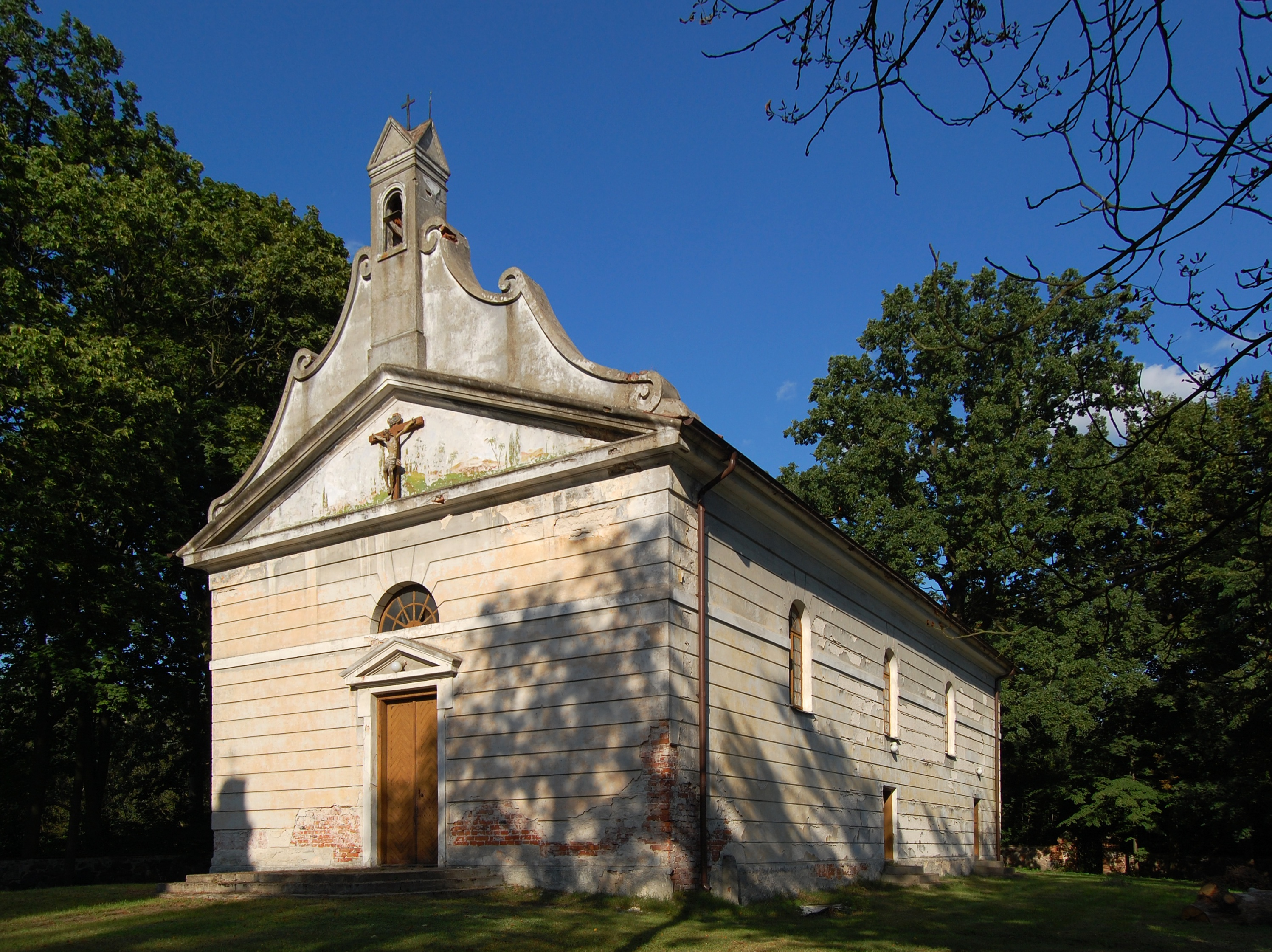 Church built in 1831, Borowie, Masovian Voivodeship, Poland